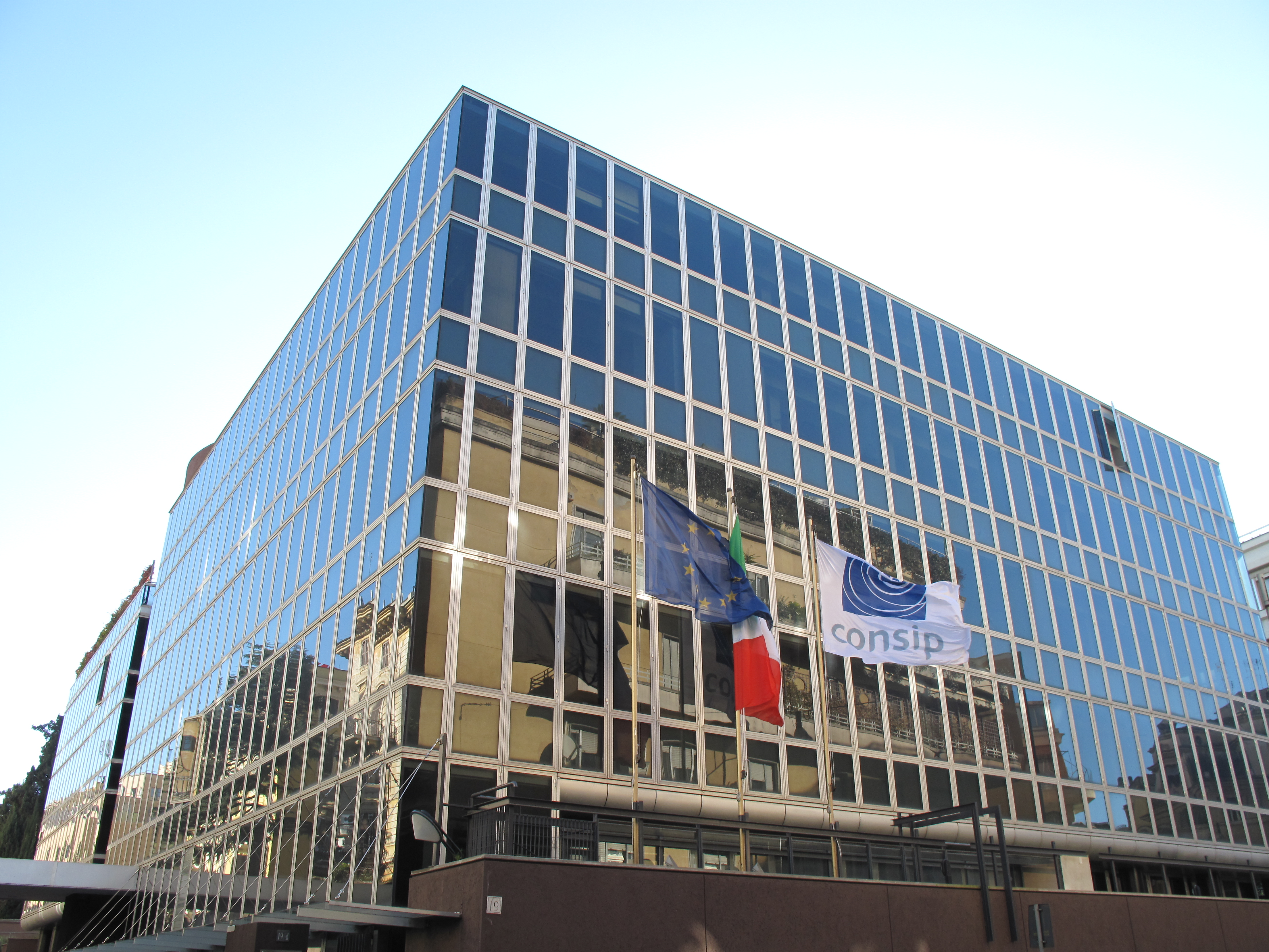 Consip building at Rome